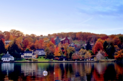 Photograph of CSHL in the fall of 2008